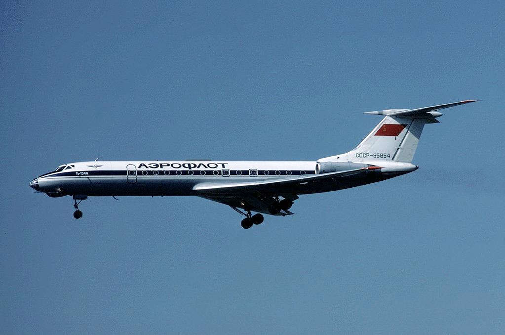 An Aeroflot Tupolev Tu-134A at Zürich Airport (ZRH / LSZH)